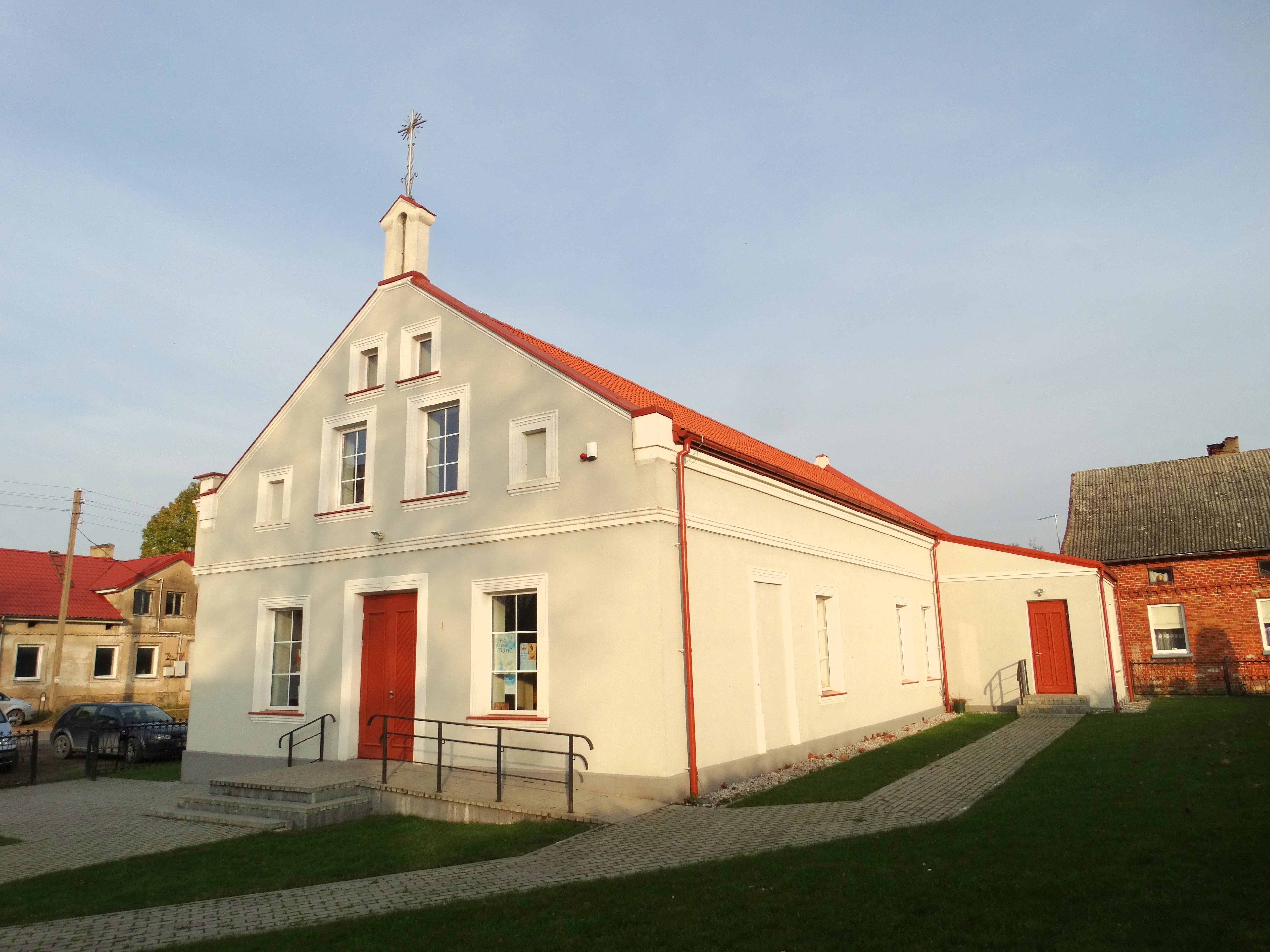 Roman Catholic Church, Vilkyškiai, Pagėgiai Municipality, Lithuania